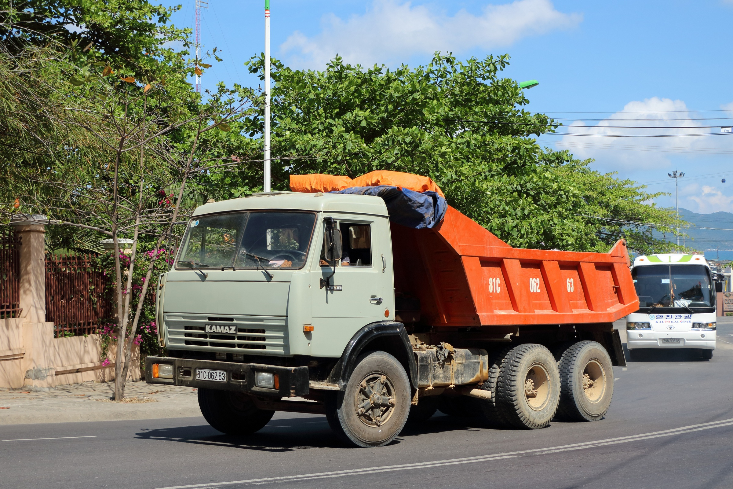 KamAZ dump truck in Nha Trang, Vietnam